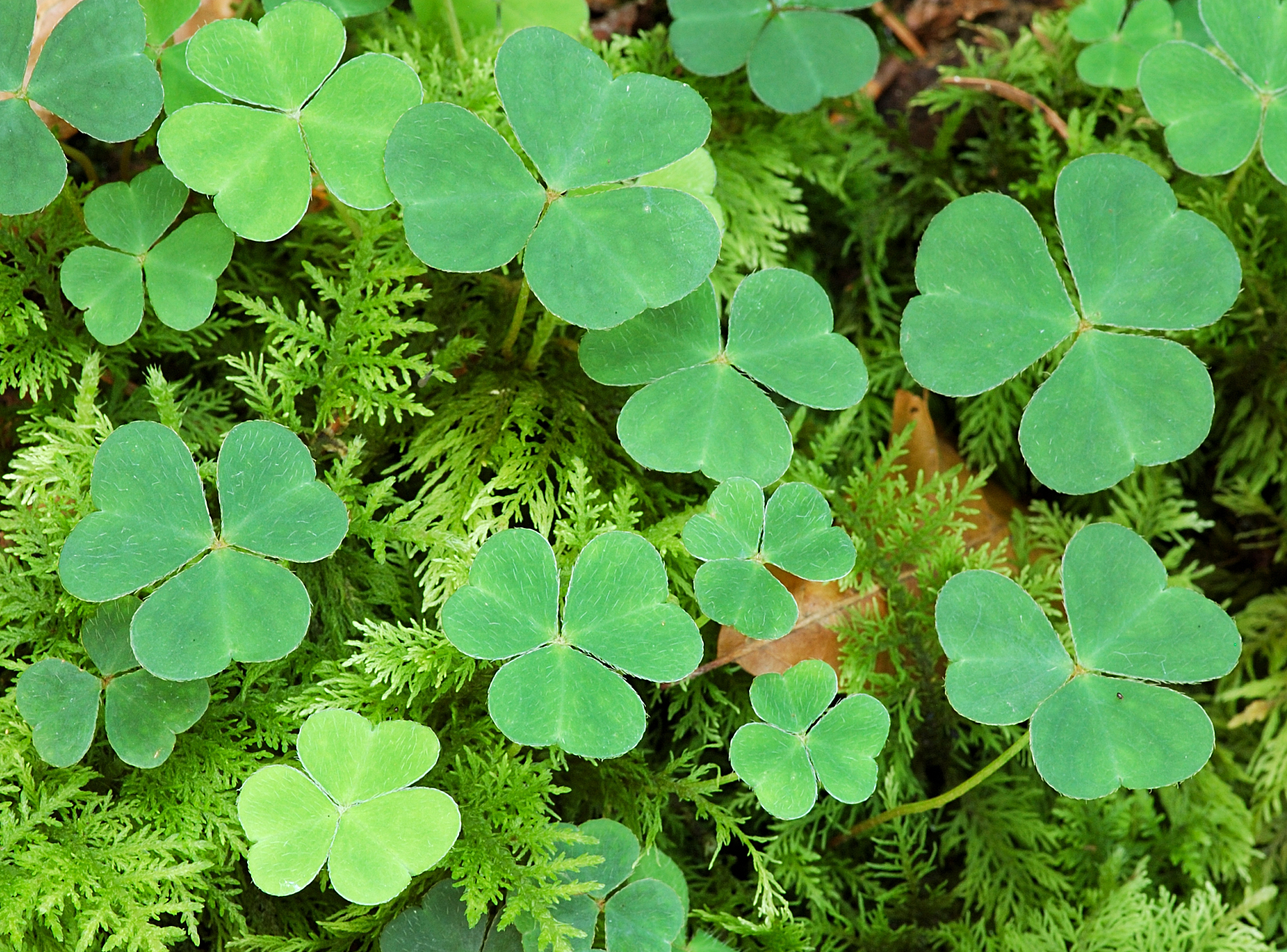 Woodsorrel (Oxalis). Picture was taken in the nature reserve Wagenmoos near Udligenswil LU, Switzerland.